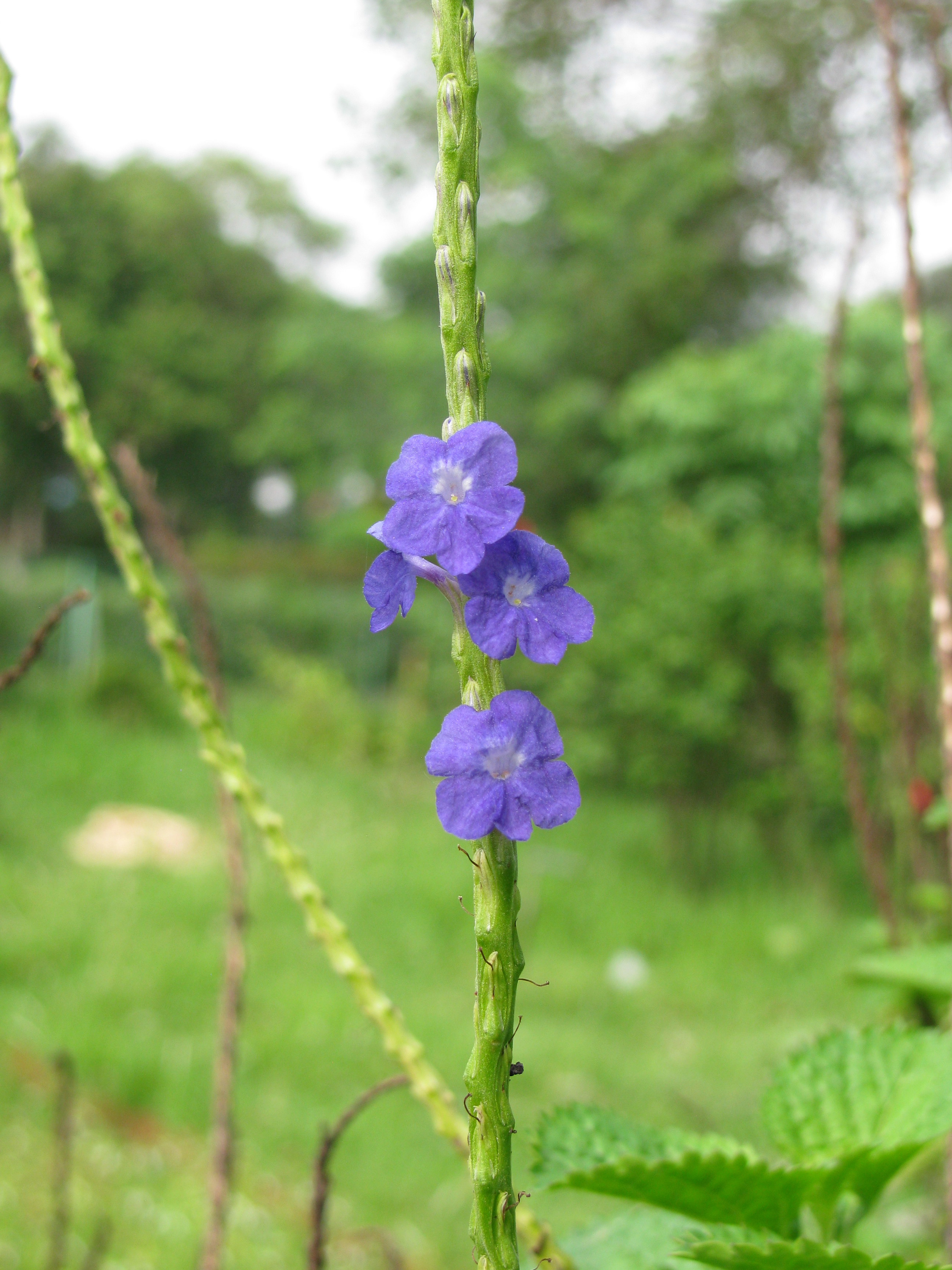 This image was taken in the project Wiki Loves Butterfly, central park (Kolkata) Butterfly garden.Velvet Berry Stachytarpheta australis